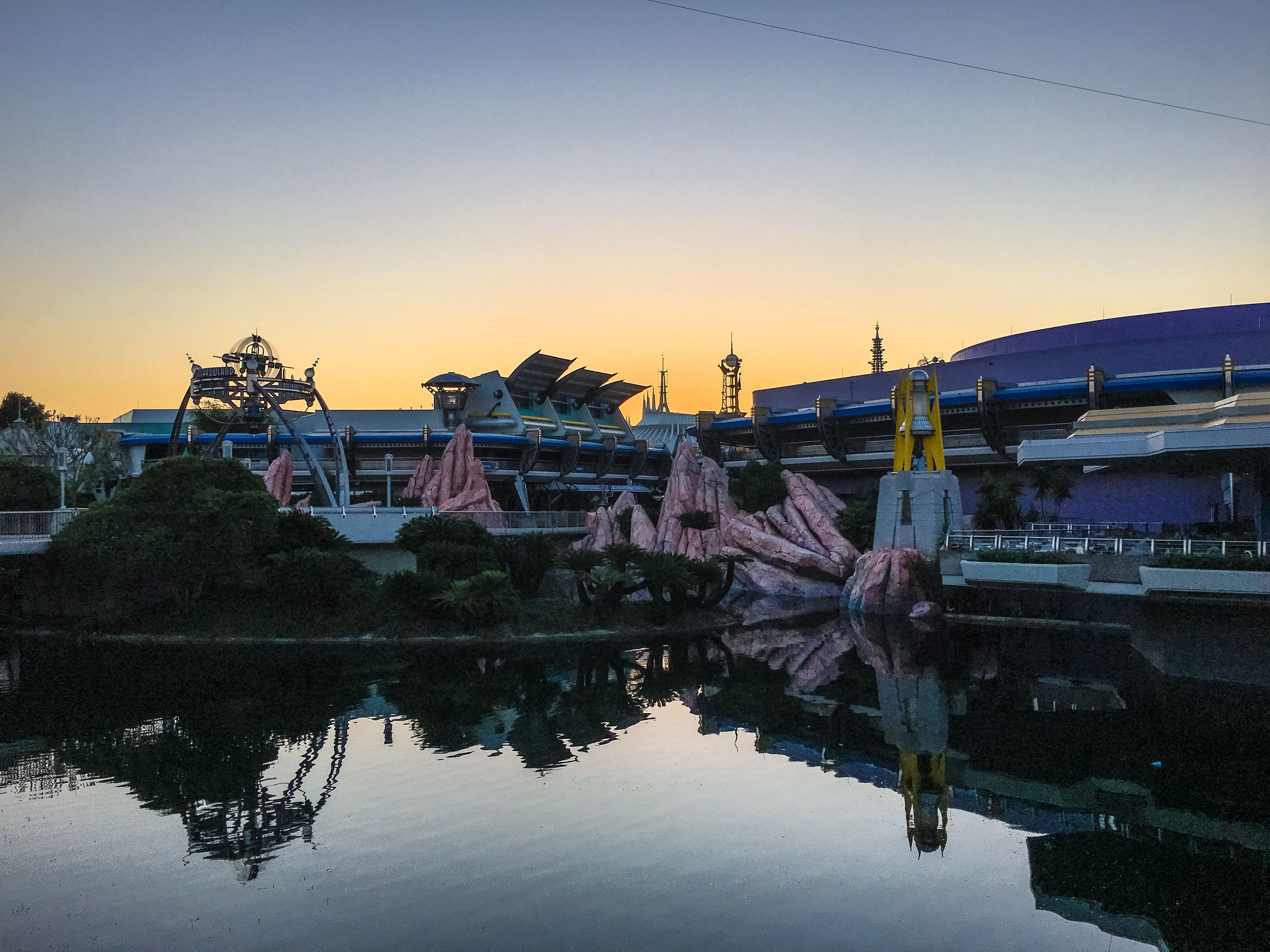 Morning at Tomorrowland in Magic Kingdom Park at Walt Disney World Resort.